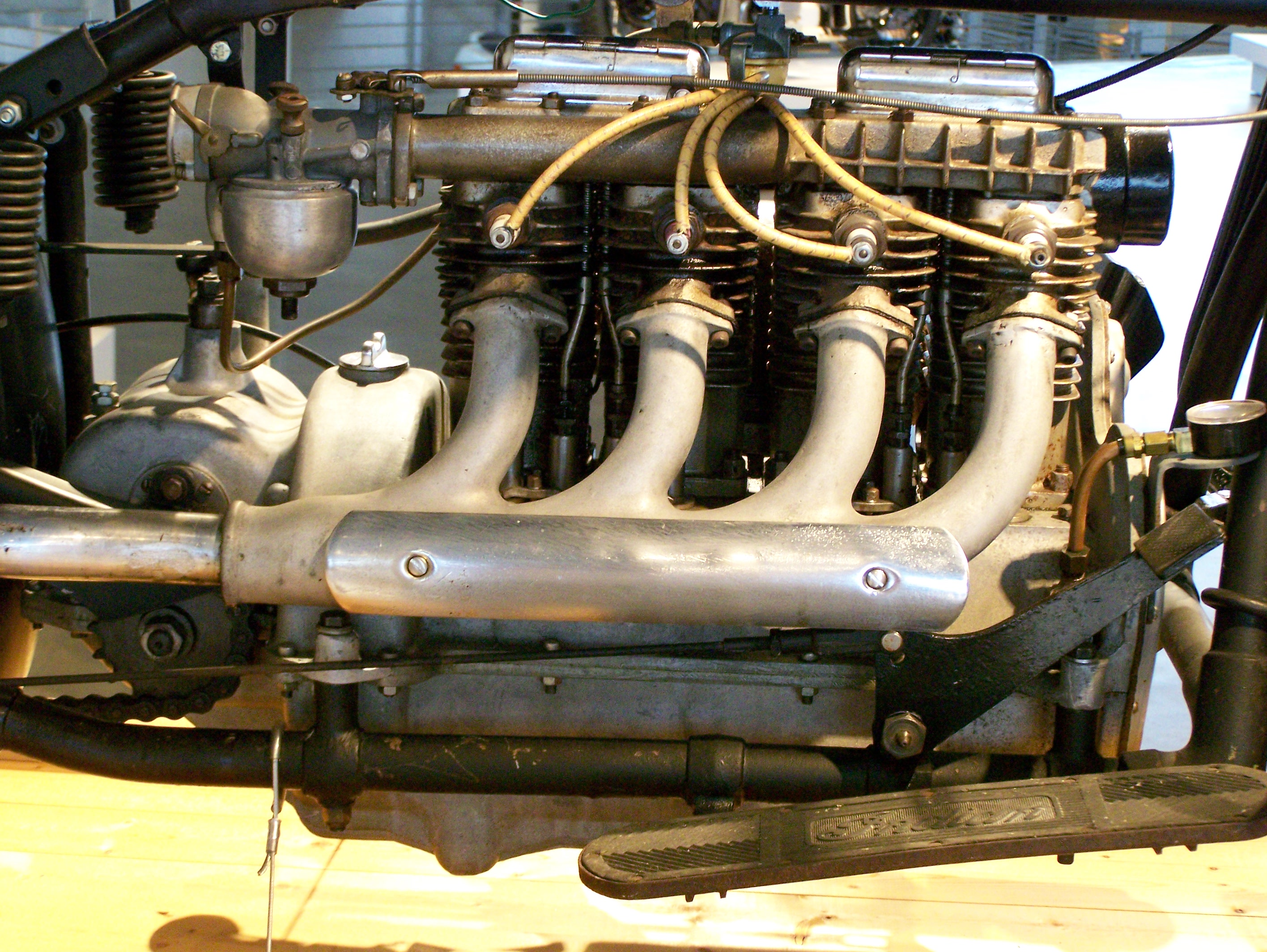 Manifold side of Indian Four engine